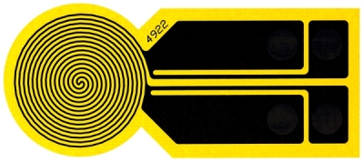 Photo of TPS sensor, model Hot Disk 4922.